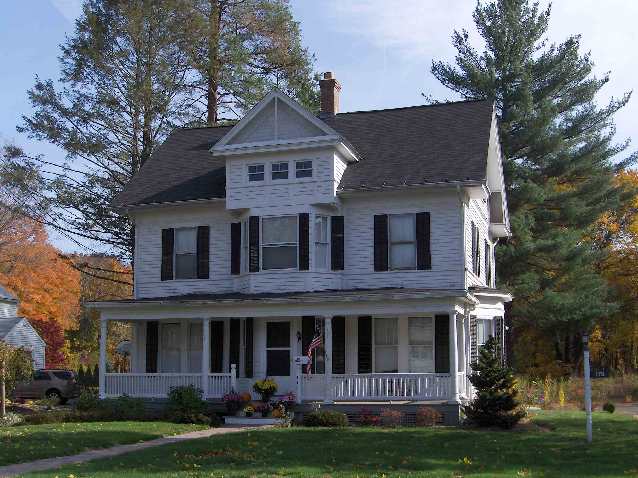 House at 173 Meriden Avenue, in the Meriden Avenue-Oakland Road Historic District of Southington, CT USA. Built in 1900